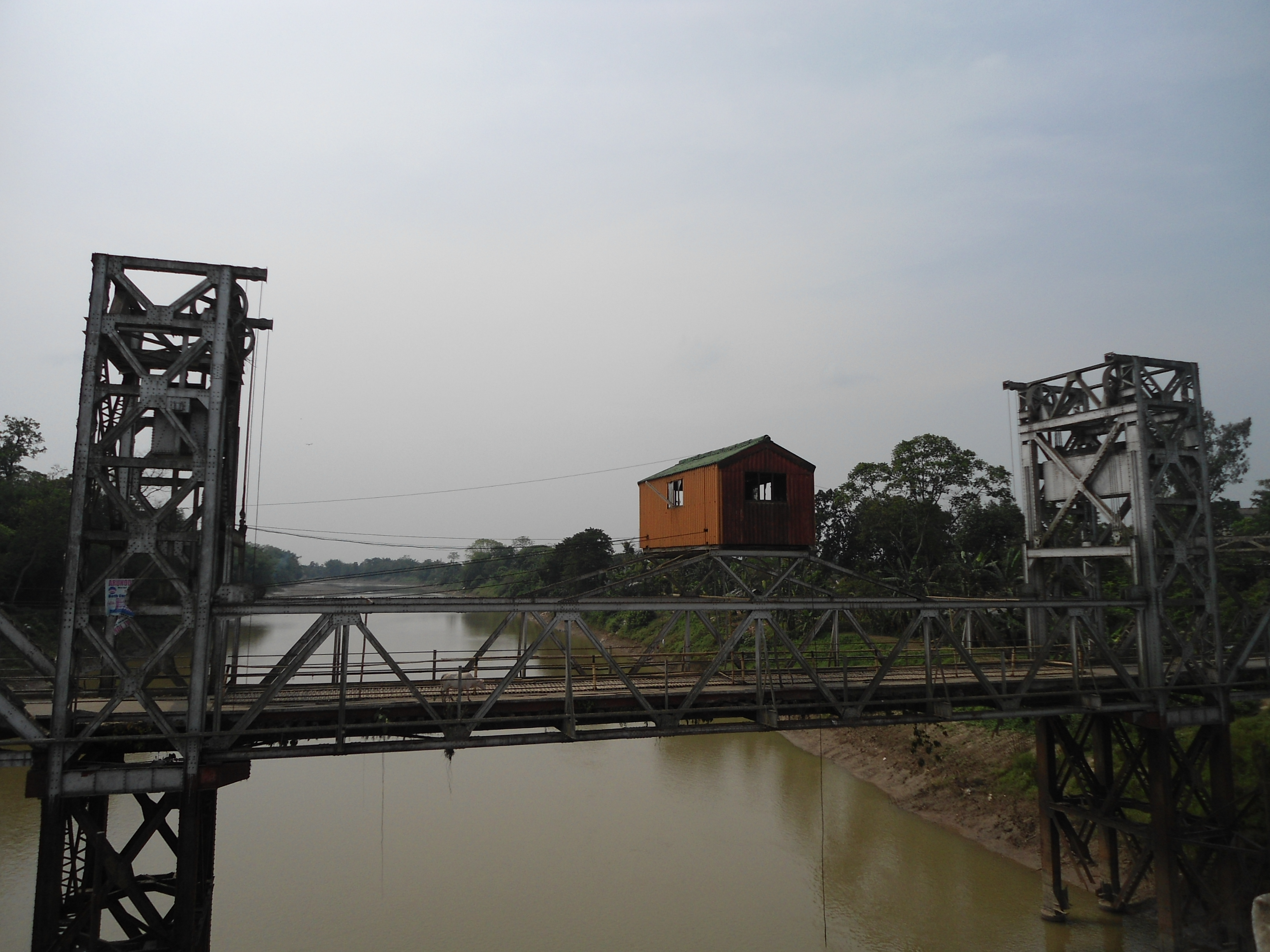 OLD DIKHOW BRIDGE on dikhow river,sivasagar. This bridge built by the British. What is unique about this bridge is that a section of the bridge can be lifted to let the Ships pass through. Although the mechanism doesn't work these days and the bridge is closed for traffic, but used by pedestrians and other two-wheelers.